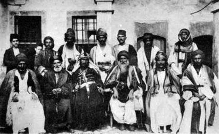 A French post card showing Yezidi leaders meeting with a Chaldean clergyman in Mesopotamia.